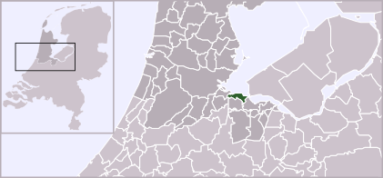 Locator map of Dutch municipalities in Noord-Holland (LocatieMuiden.png)